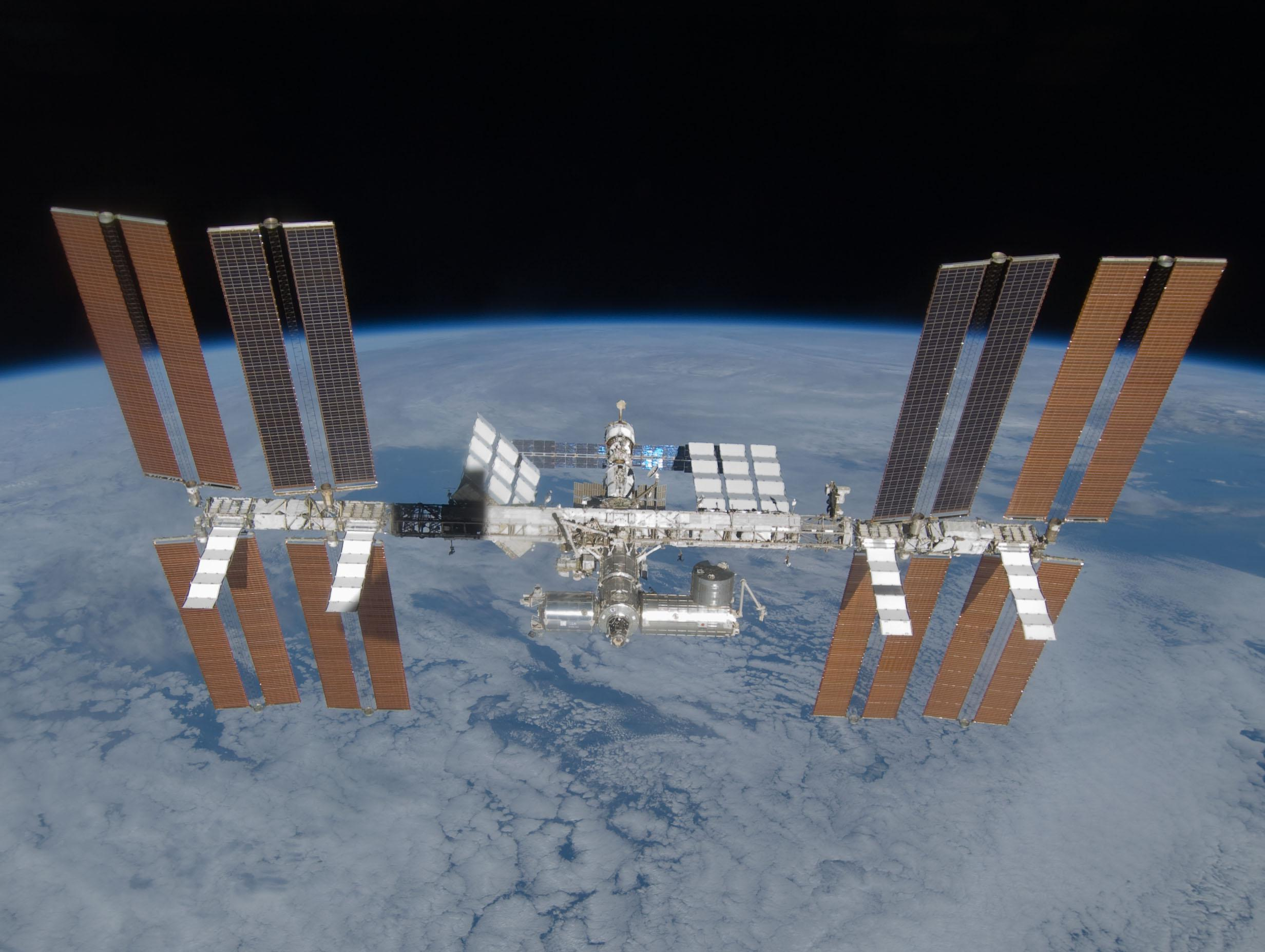 The International Space Station as seen from the departing Space Shuttle Discovery during STS-119. In view are the four pairs of solar arrays mounted along the newly-completed Integrated Truss Structure. The newest and final part of the ITS, launched on this mission, is the S6 truss and arrays, visible to the far left of this image.